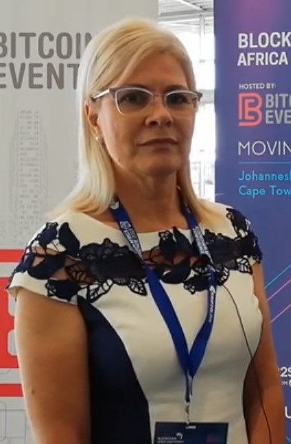 Western Cape MEC for Economic Opportunities, Beverley Schafer